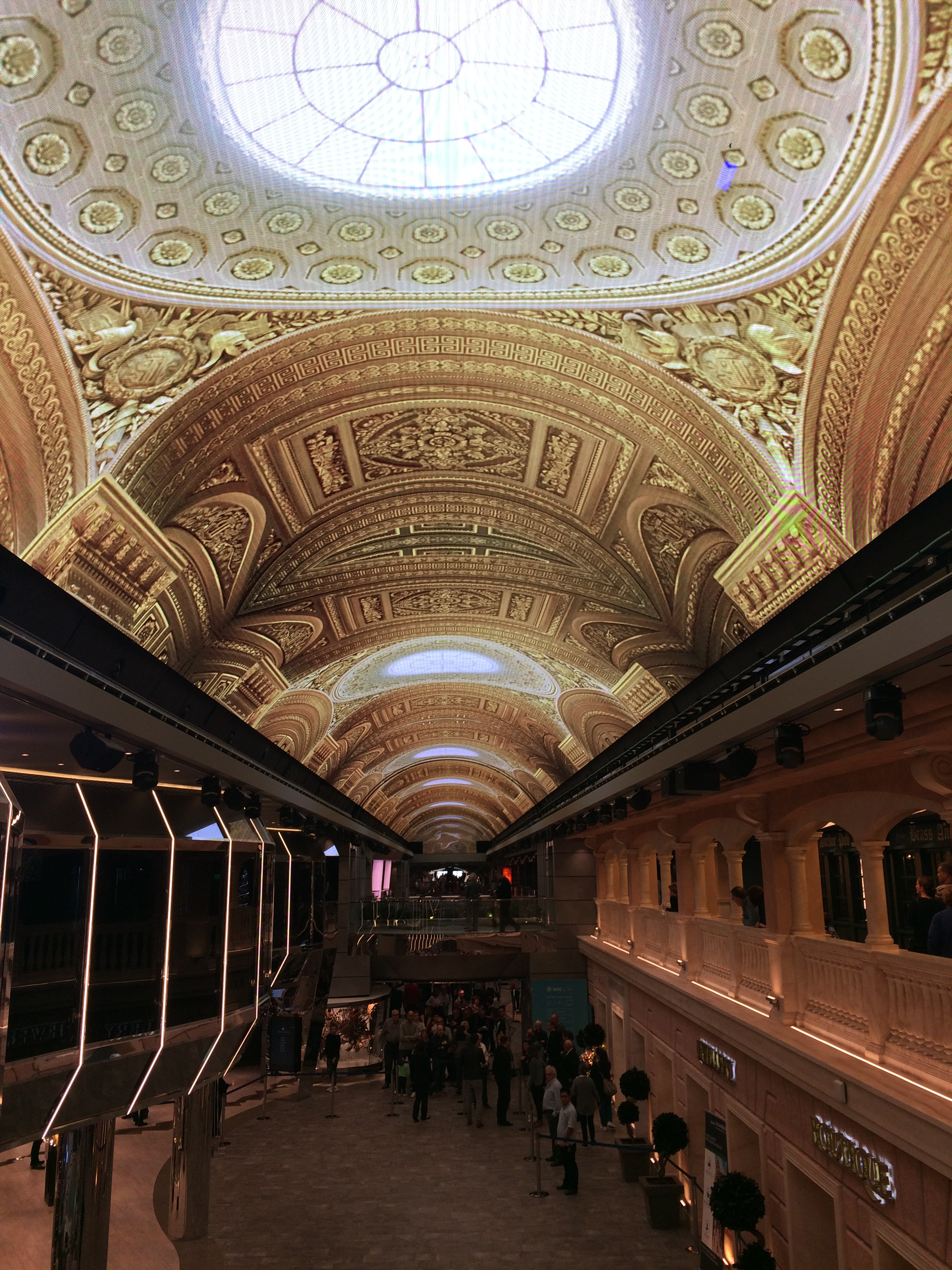 An image of the built-in digital screen on the ceiling of deck 6 of the MSC Meraviglia